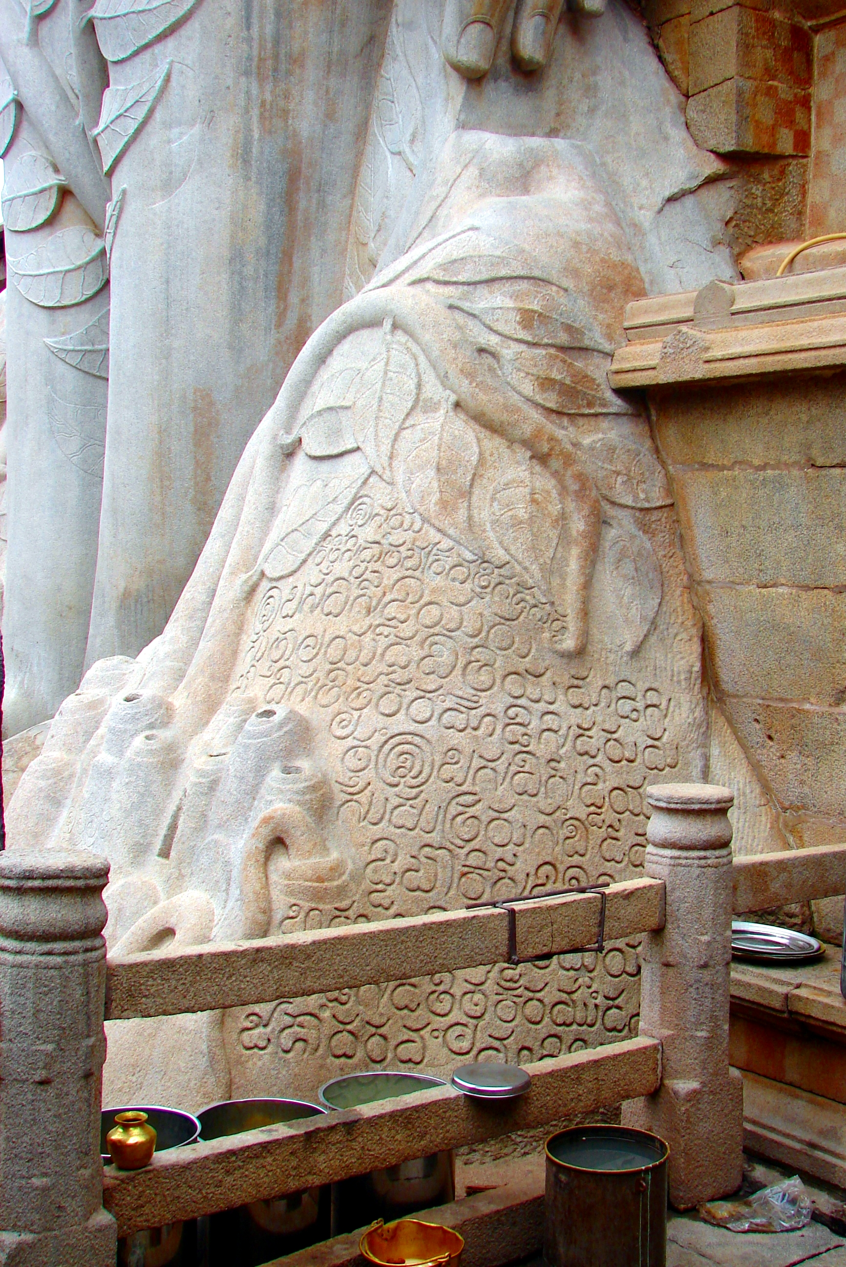 photograph of an old Kannada inscription dated 981 CE at Vindyagiri hill in Shravanabelagola, Hassan district, Karnataka state, India in July 2007.